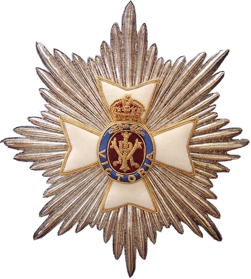 Star of a Knight or Dame Grand Cross of the Royal Victorian Order